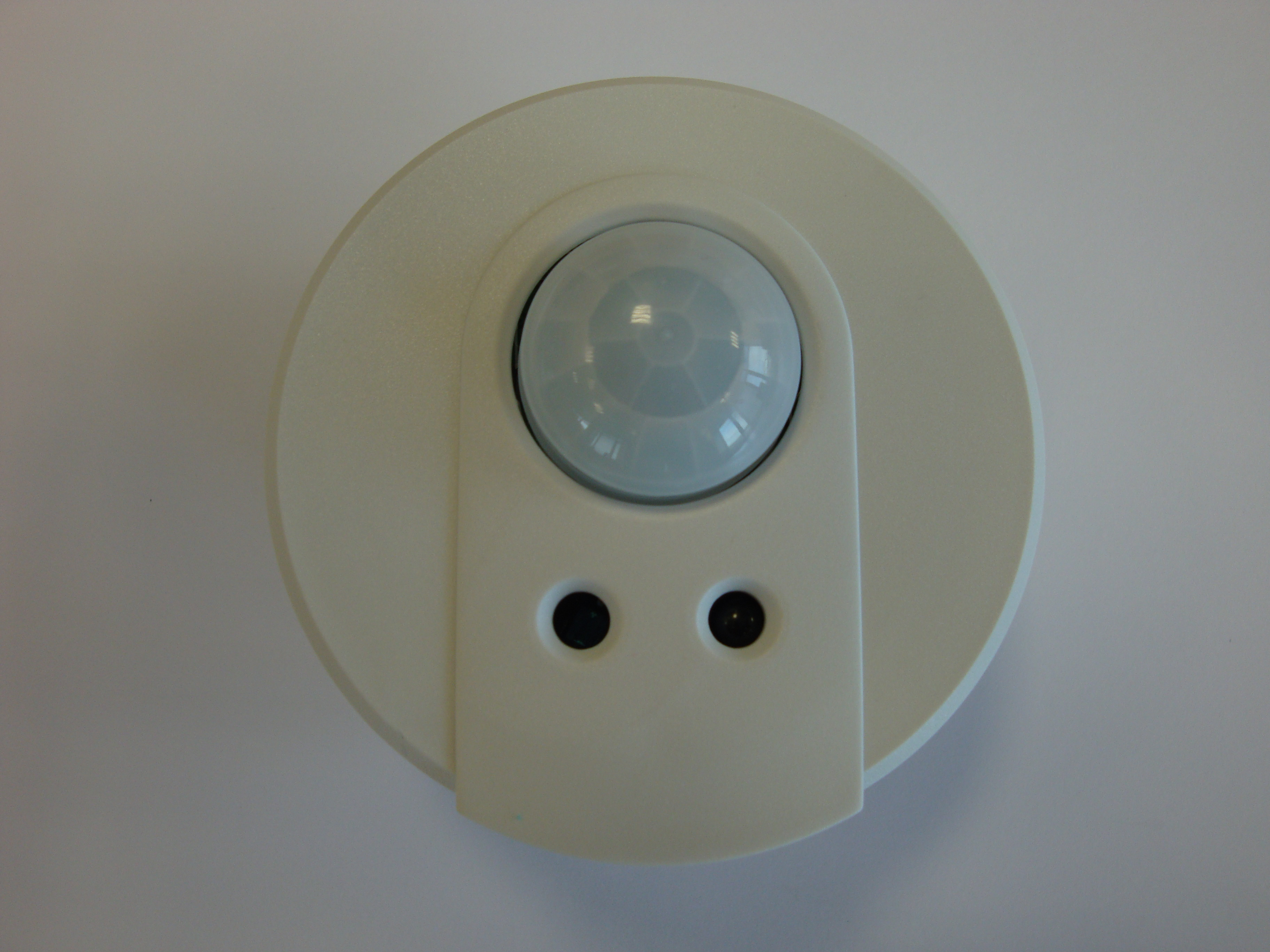 Multisensor: presence detector, daylight detector and infrared reciever for individual control